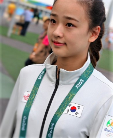 Son Yeon-Jae in the Rio 2016 Athletes' Village